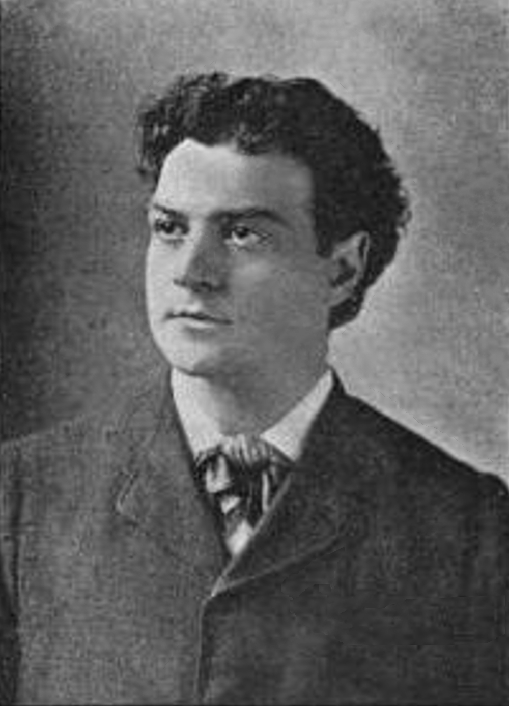 Tommaso Salvini's son Alessandro (aka Alexander) (1861-1896), also an actor, had several notable successes in America, particularly as d'Artagnan in The Three Guardsmen.